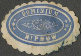 Sealing stamp Title: Dominium Nipnow Description: blau, weiß, geprägt Place: Nipnow/Pommern size: 2x3 cm